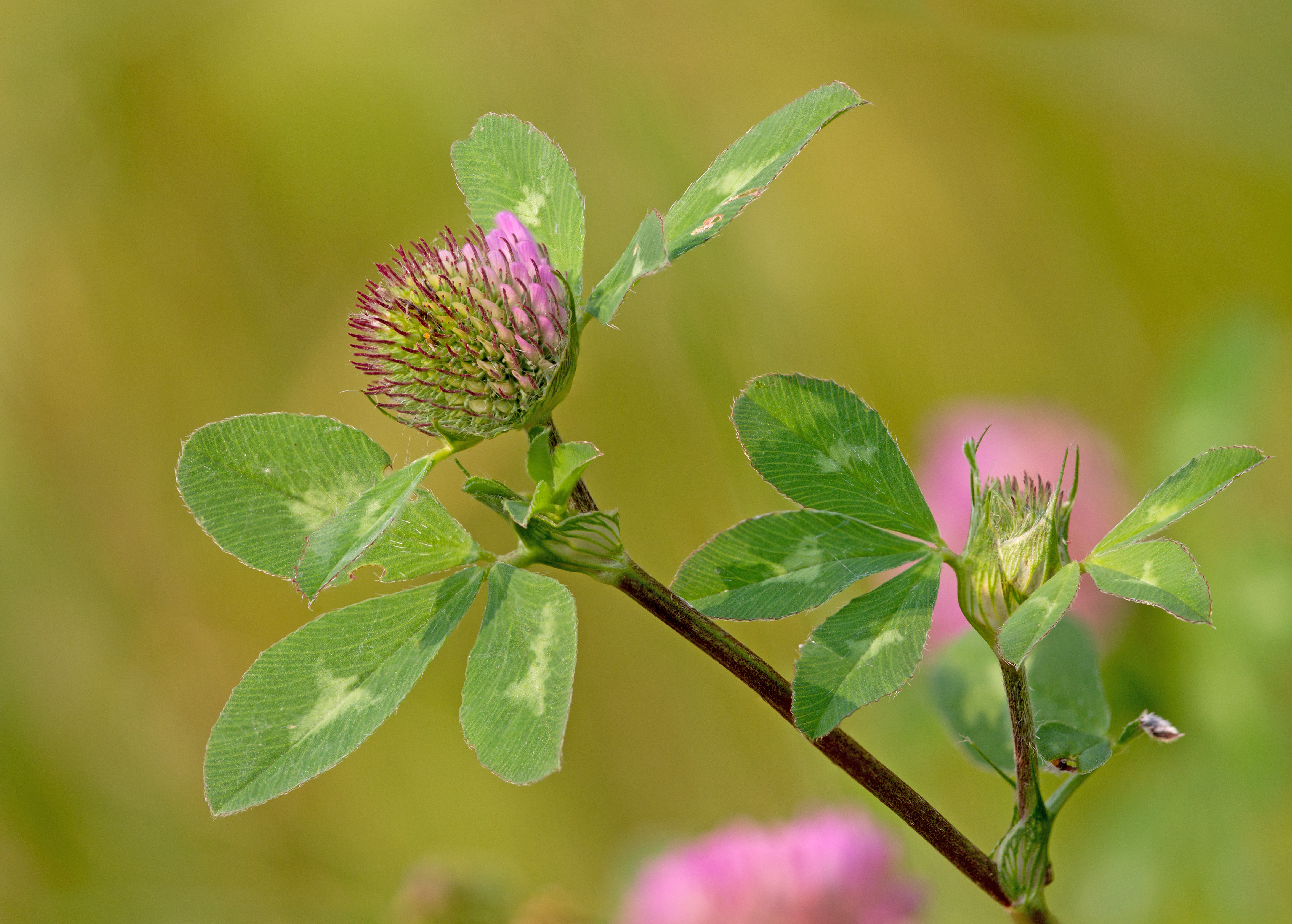 Red clover